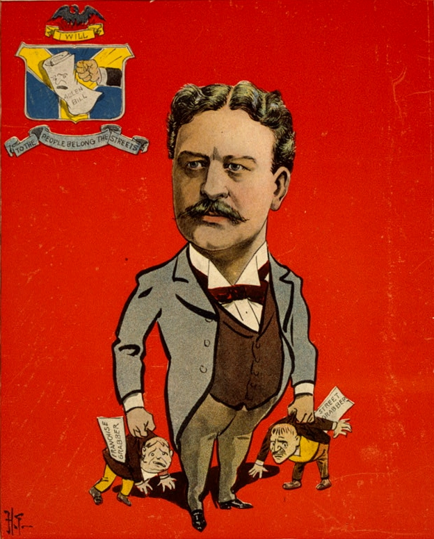 Caricature of Carter Harrison, Mayor of Chicago. The emblem in the upper left reads, "Will: To the people belong the streets" and has a picture representing the "Allen bill", which was signed by Illinois governor John Riley Tanner, ceding control of Chicago's intra-city transportation to financier Charles Yerkes. In the pockets of the two people are being held by Harrison are labels that read "franchise grabber" (left) and "street grabber" (right).